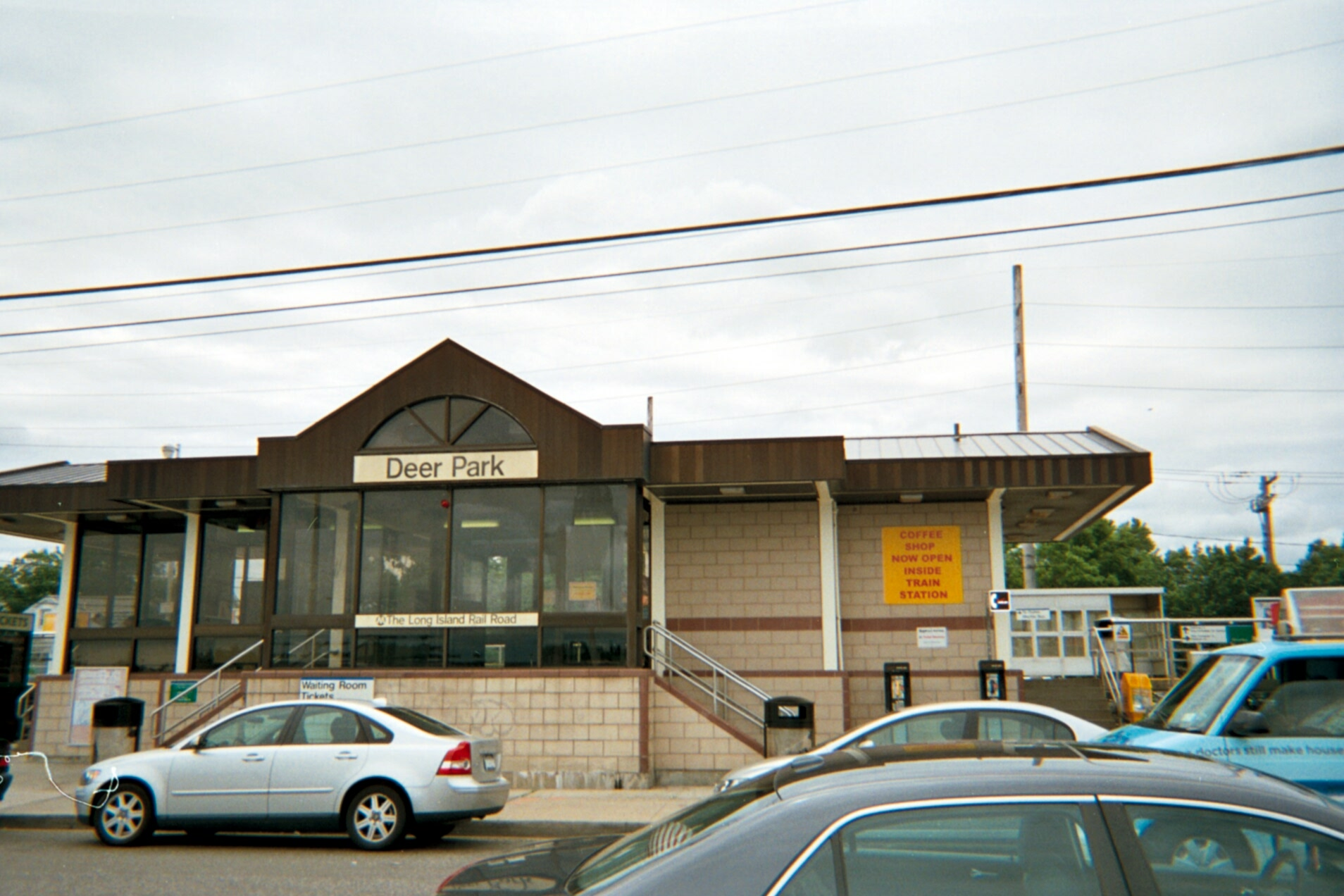 Deer Park (LIRR station)(a.k.a.; Deer Park-Pineaire (LIRR station)) as seen from the north parking lot.